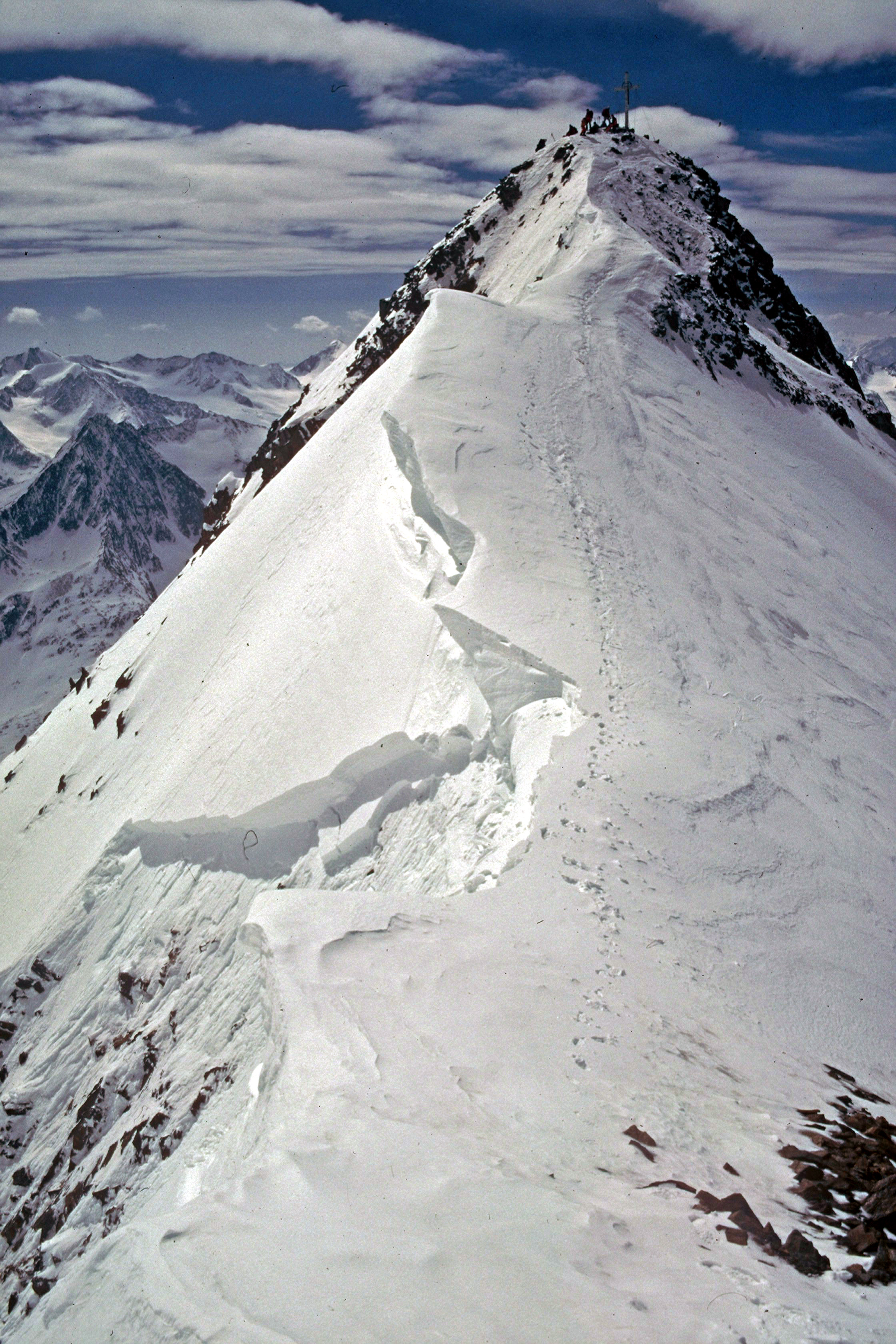 Broken cornice caused by man at the Wildspitze (3770 m) in Tyrol, Austria. The falling cornice caused an avalanche.